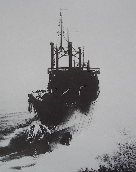 O.S.K. Line Gokoku Maru